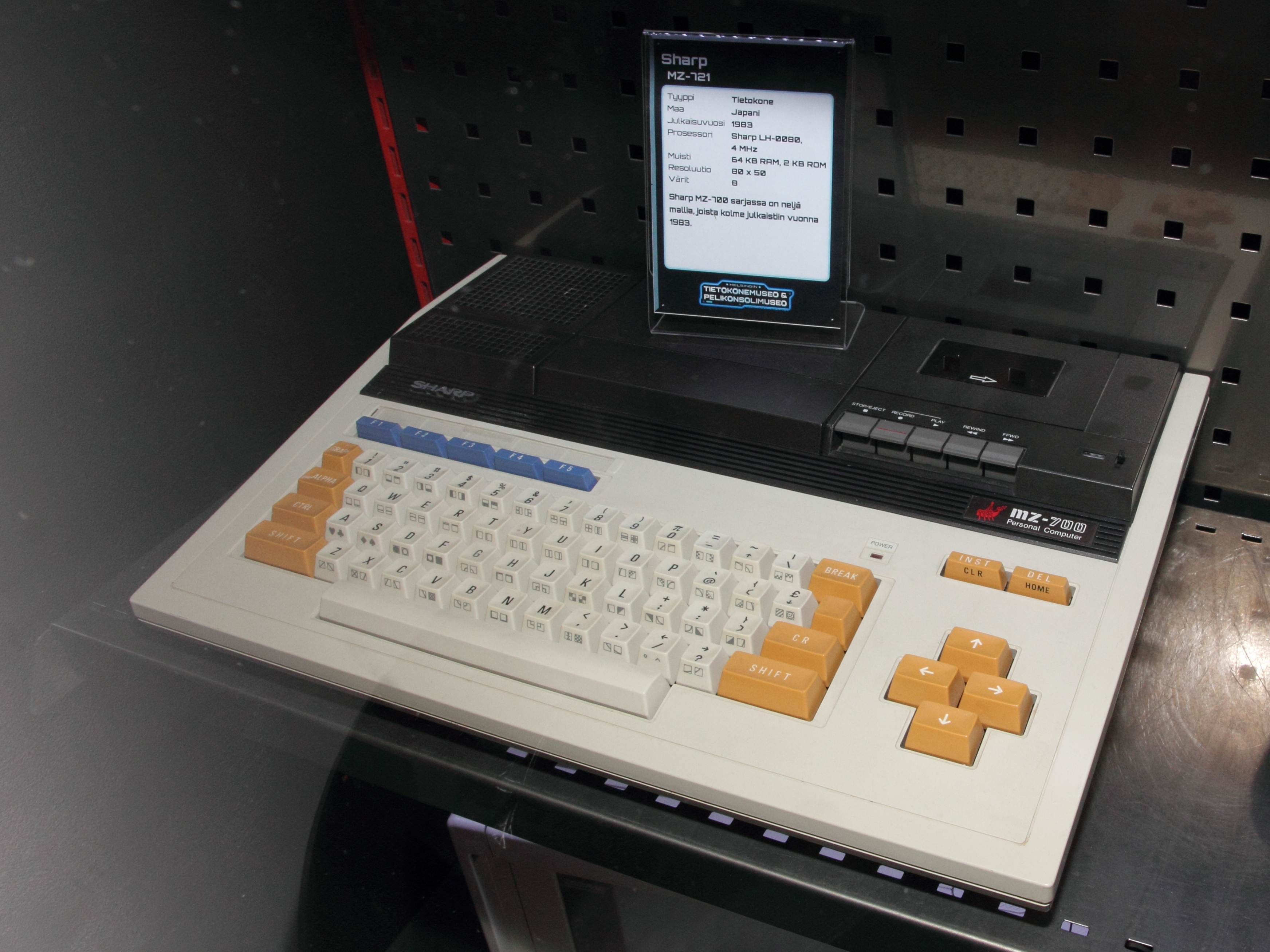 Sharp MZ-721 computer in Helsinki Computer and game console museum.